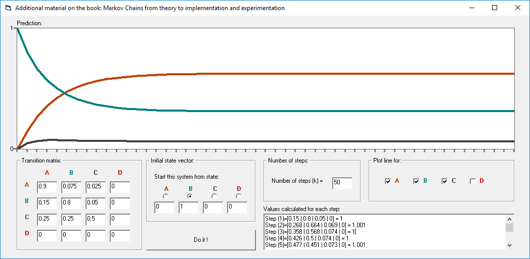 Markov Chains prediction on 50 discrete steps.